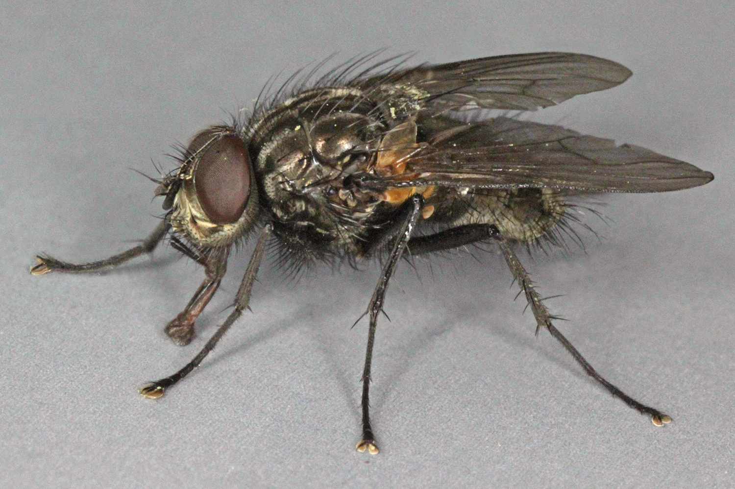 Phaonia consobrina male, Trawscoed, North Wales, May 2011